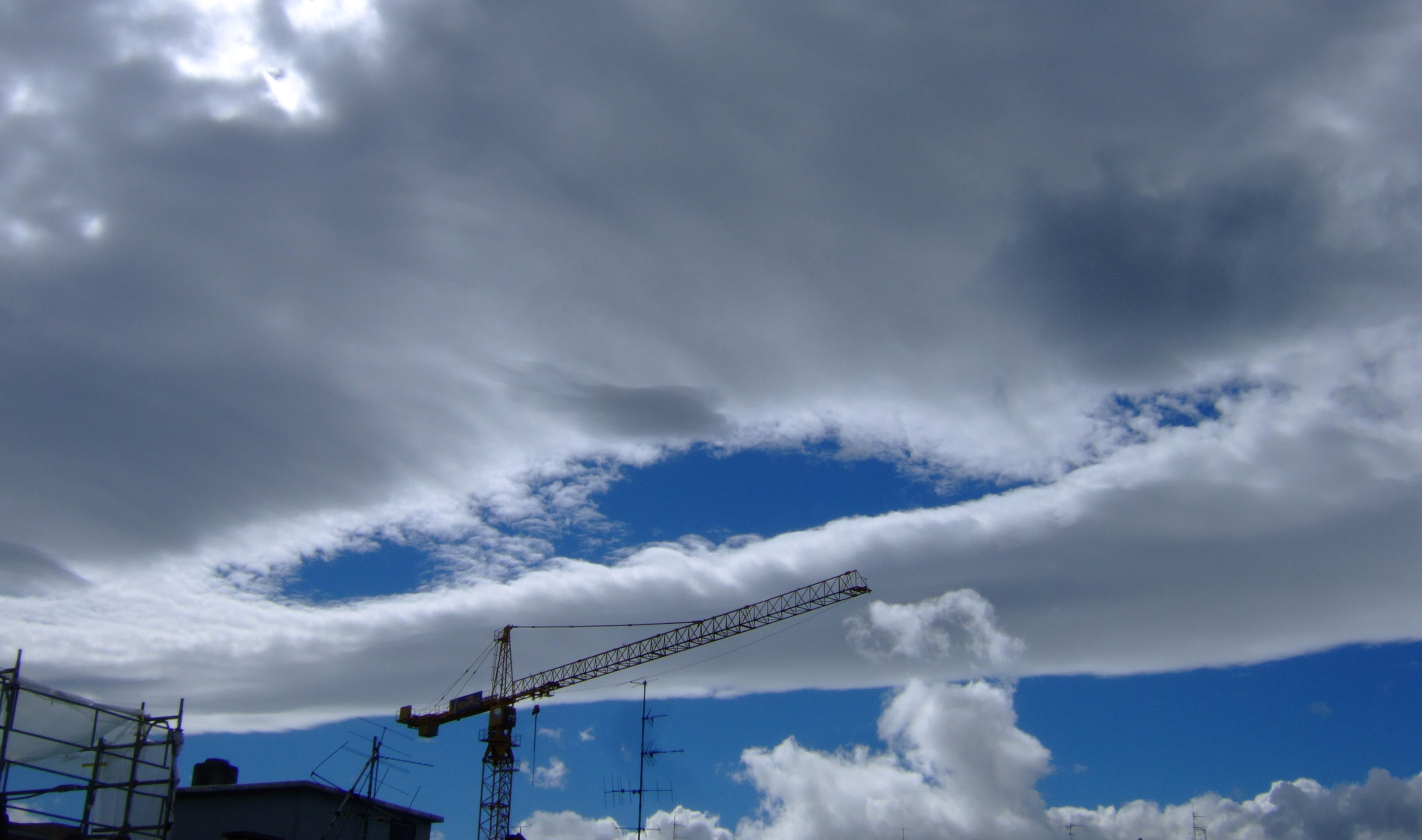 Foehn clouds in Geneva, Switzerland photographed on 24 July, 2007. Unfortunately, a crane and some antennas obstruct the view...